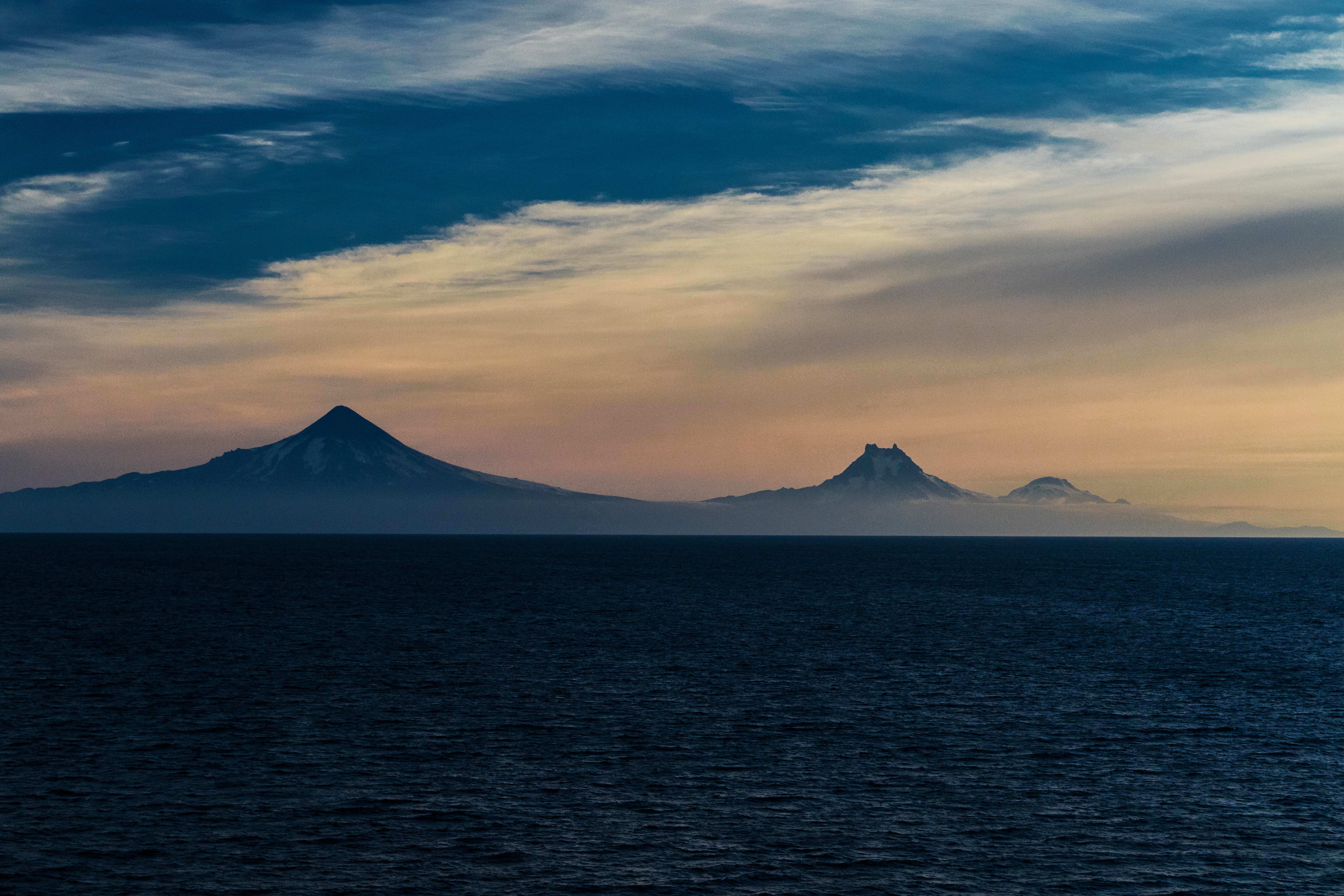 Unimak Island from Unimak Pass looking north east. Volcanoes are Shishaldin, Isanotski and Roundtop respectively.